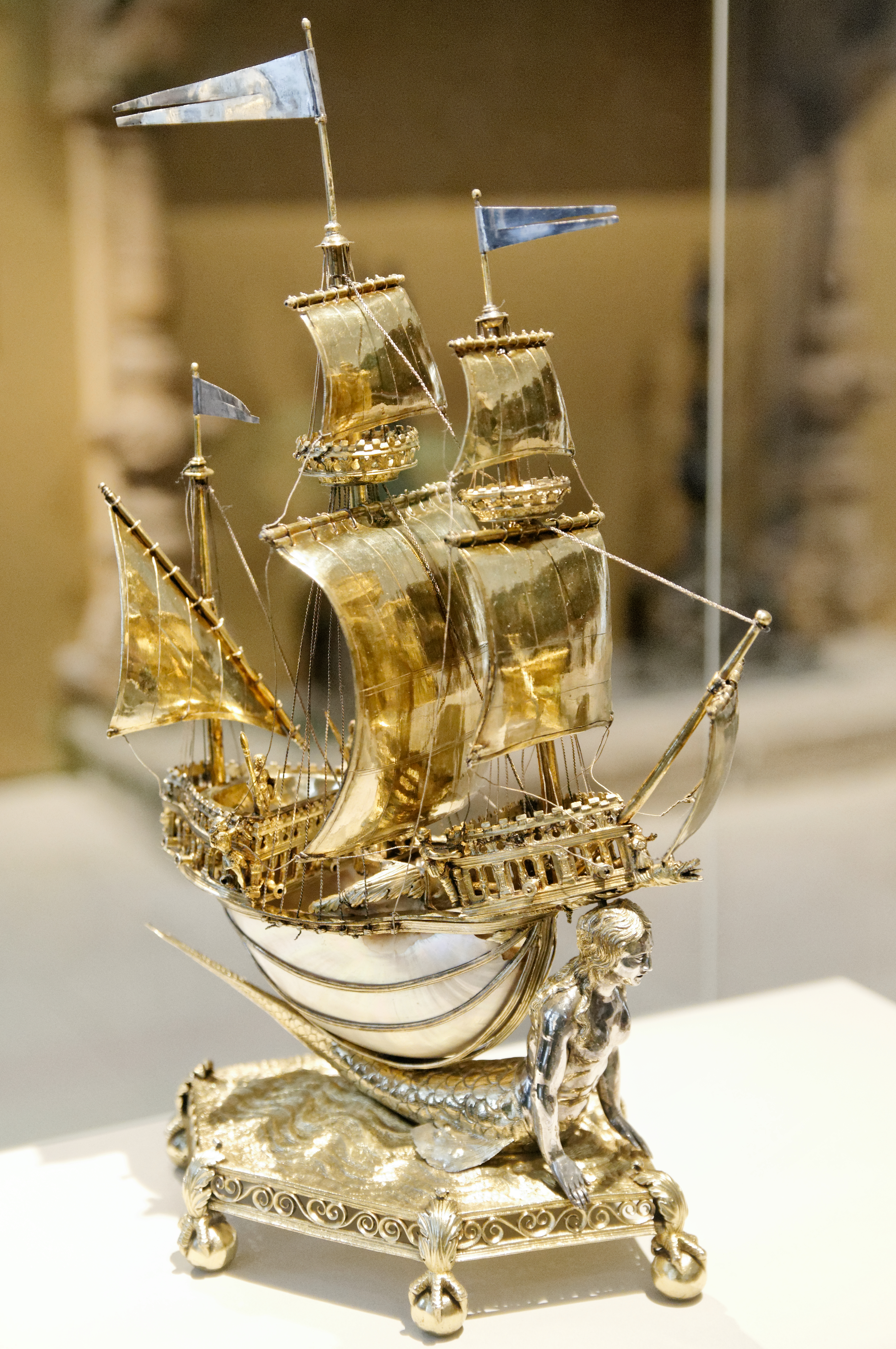 Salt cellar in the shape of a late medieval ship, Parisian artwork.